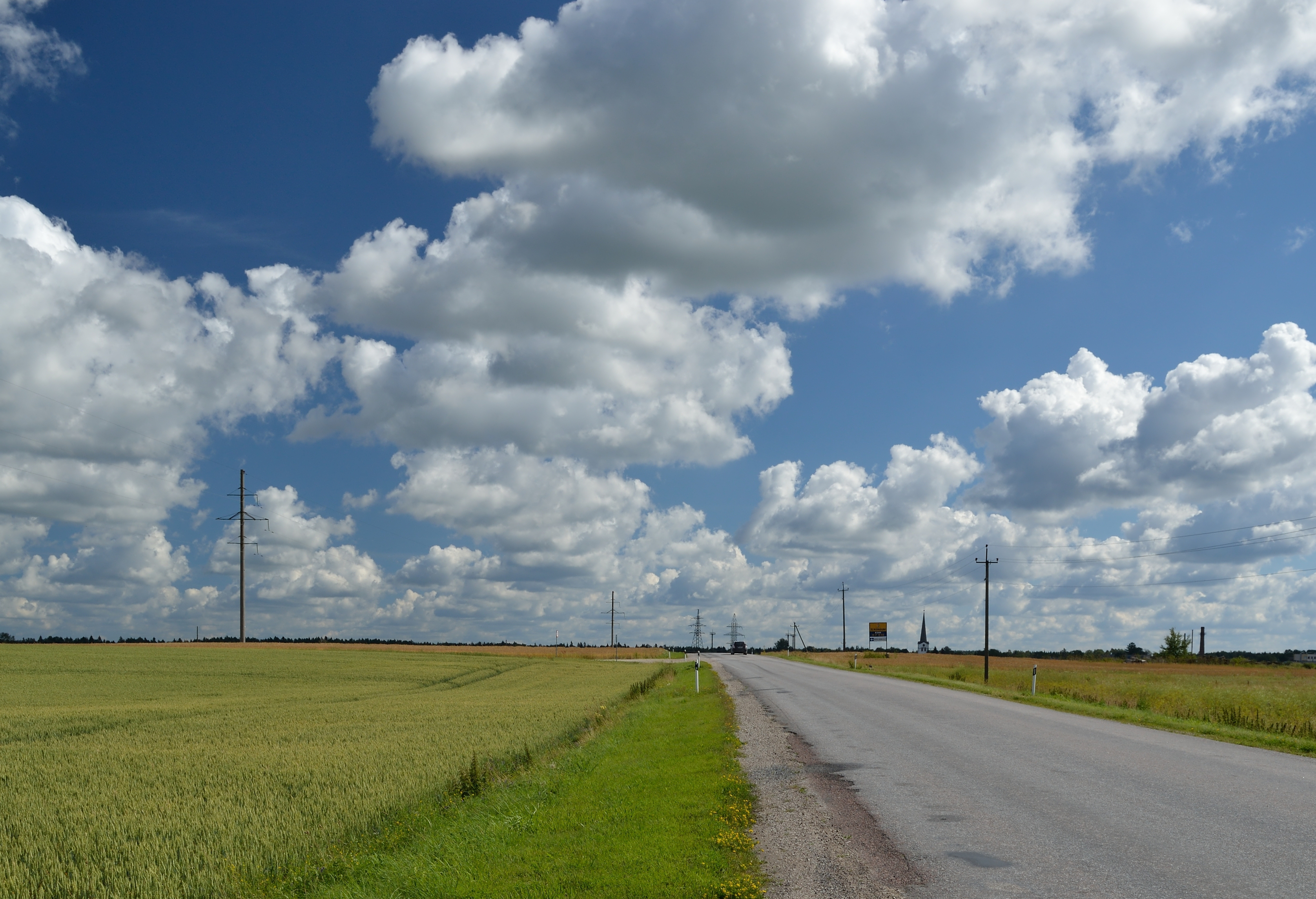 Kose-Jägala road in Kose border